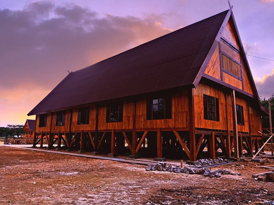 The bharuga has a historical source about muna